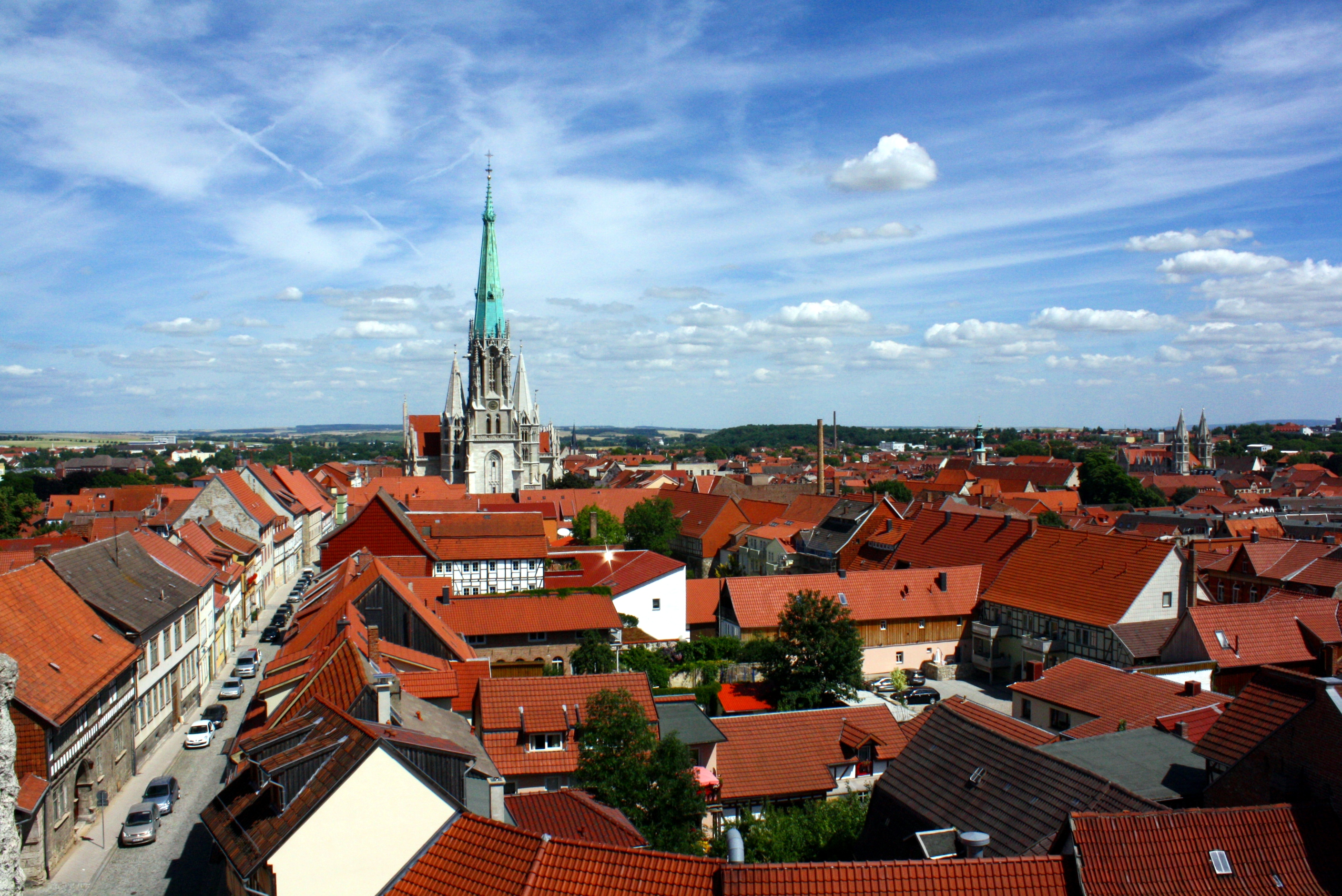 View over the historic district of Mühlhausen/Thuringia from a tower of city wall